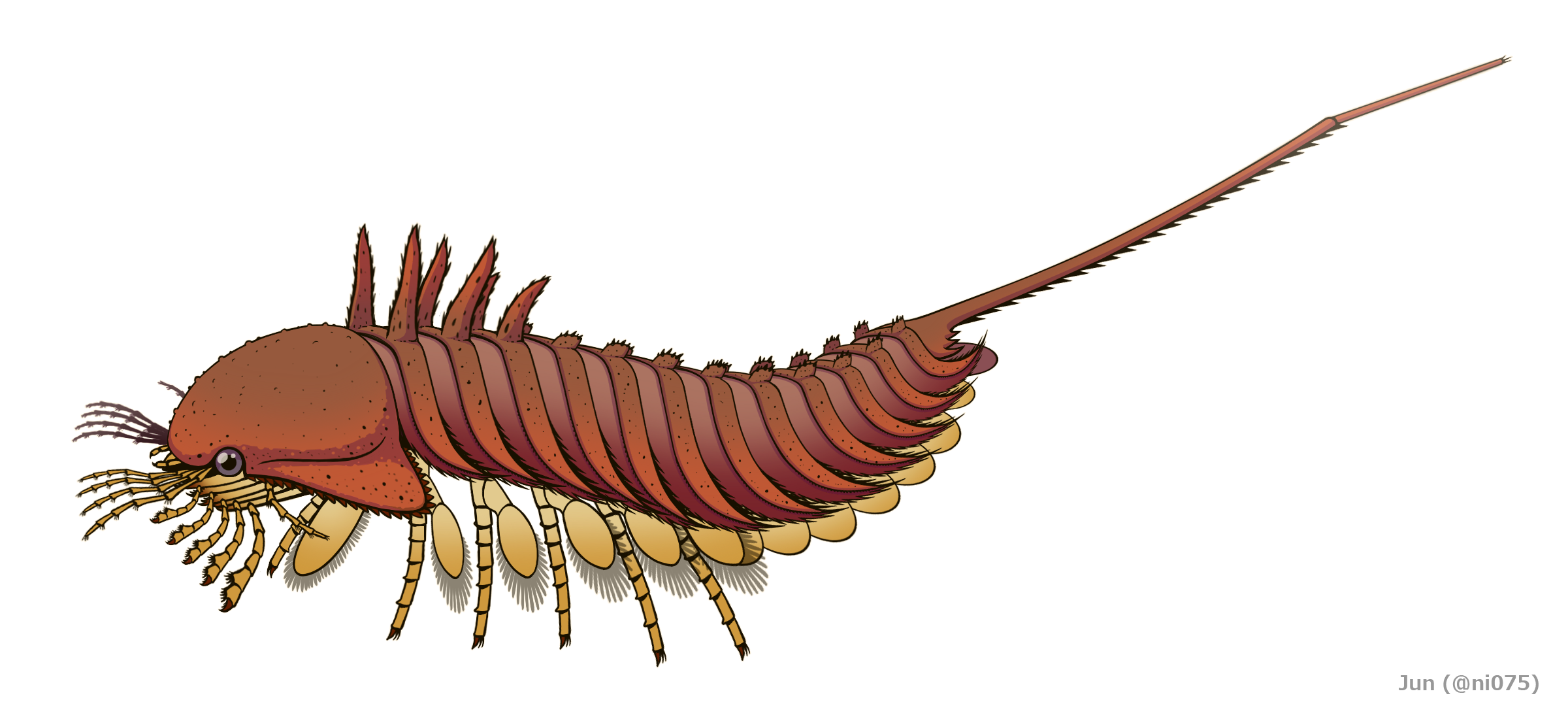 Reconstruction of Habelia optata, a cambrian habeliidan (basal chelicerate) arthropod.